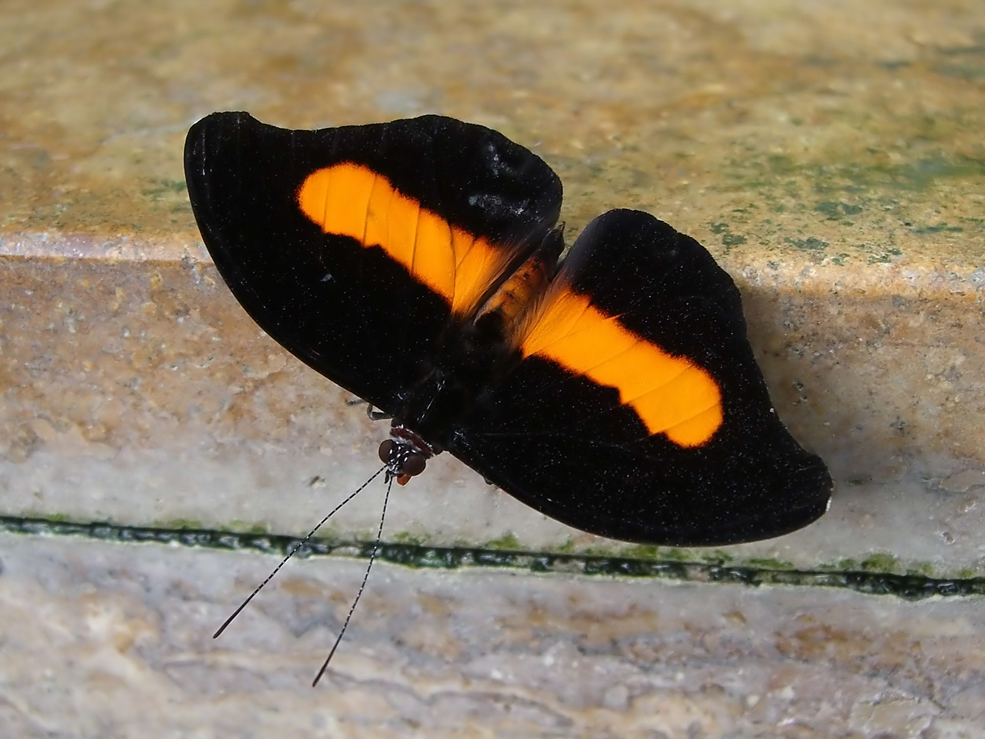 Description: Catonephele orites